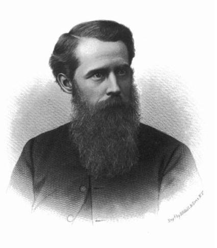 Cropped version of engraved promotional or souvenir portrait.